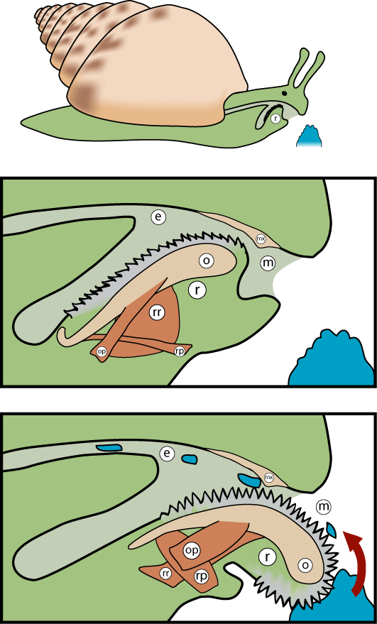 third version of radula diagram. e = esophagus m = mouth mx = maxilla o = odontophore op = odontophore protractur muscle r = radula rp = radula protractor muscle rr = radula retractor muscle